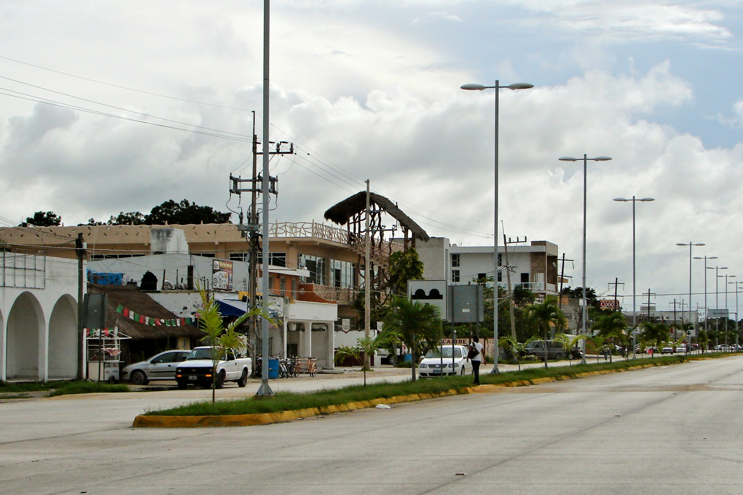 Town of Tulum, Quintana Roo, Mexico